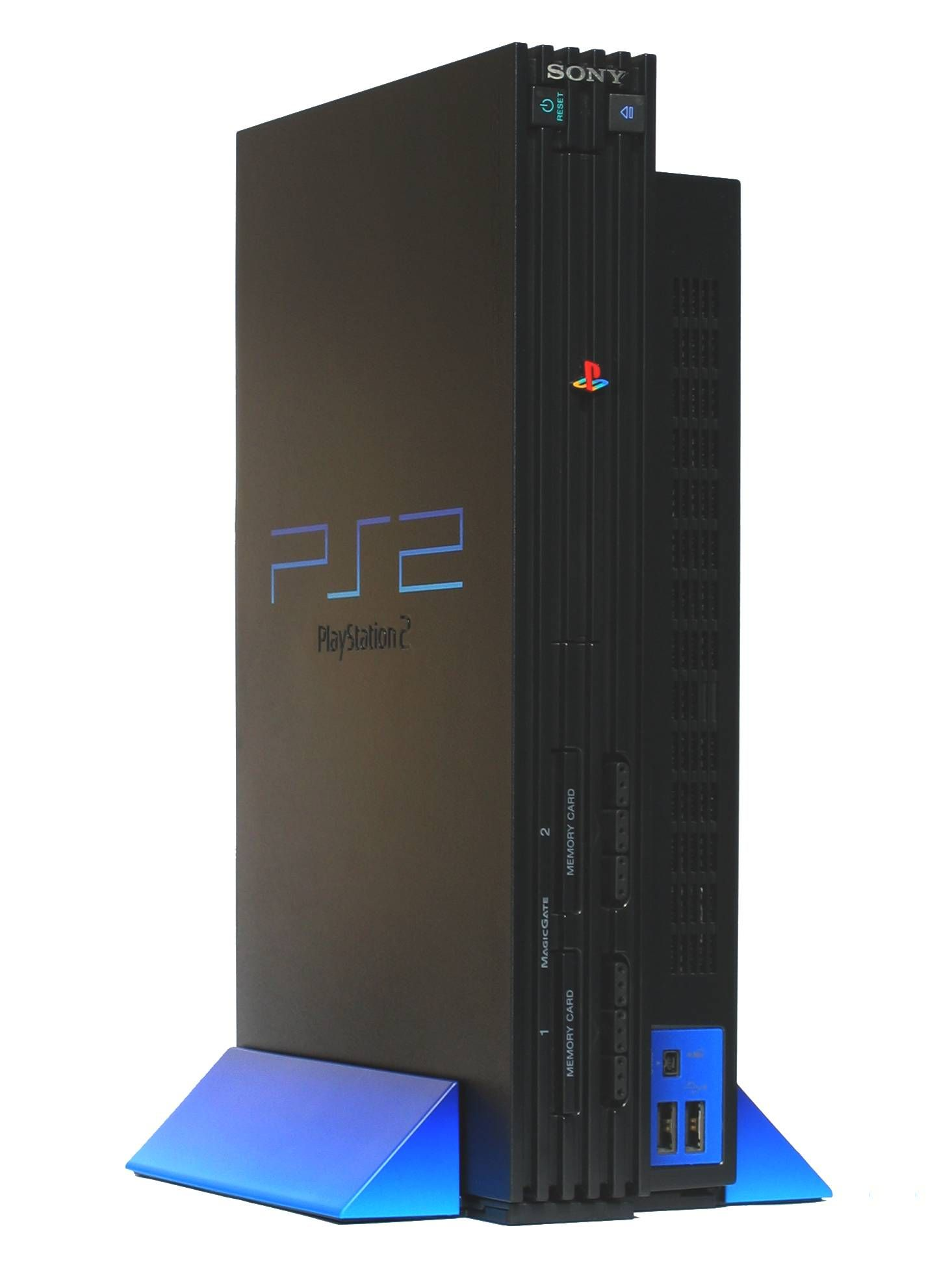 PlayStation 2 (SCPH-30000).